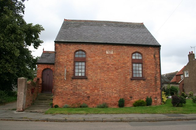 Former chapel Formerly Cottam Wesleyan Methodist Chapel, built 1857, now a private house